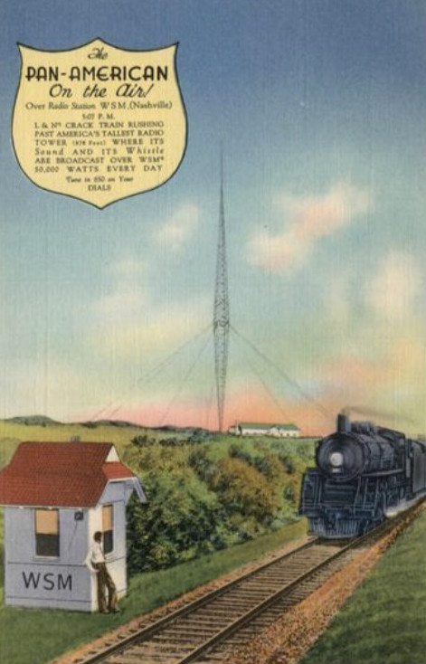 Postcard depiction of the Louisville & Nashville train, Pan-American (train) as it passed by the transmitter of WSM (AM), Nashville. The radio station installed an outdoor microphone to pick up the train's whistle as it passed the station's transmitter on its way between Cincinnati and New Orleans. Because of WSM's clear channel coverage, the train's whistle could be heard in all 48 states via radio on weekdays.